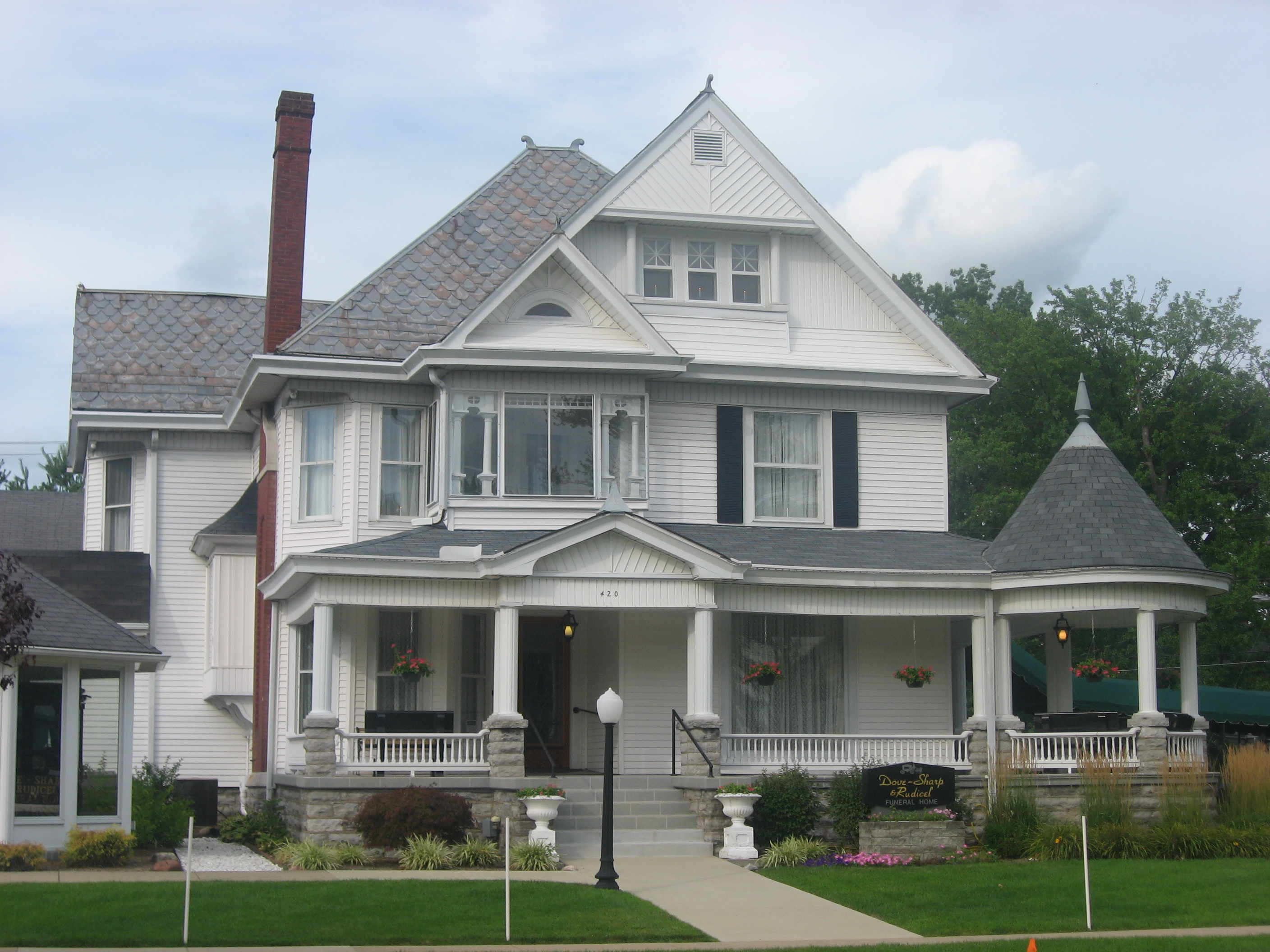 Front of the Olcott House (now Dove, Sharp, and Rudicel Funeral Home), located at 420 S. State Street (State Roads 3/7) in North Vernon, Indiana, United States. Built in 1907, it is part of the State Street Historic District, a historic district that is listed on the National Register of Historic Places.